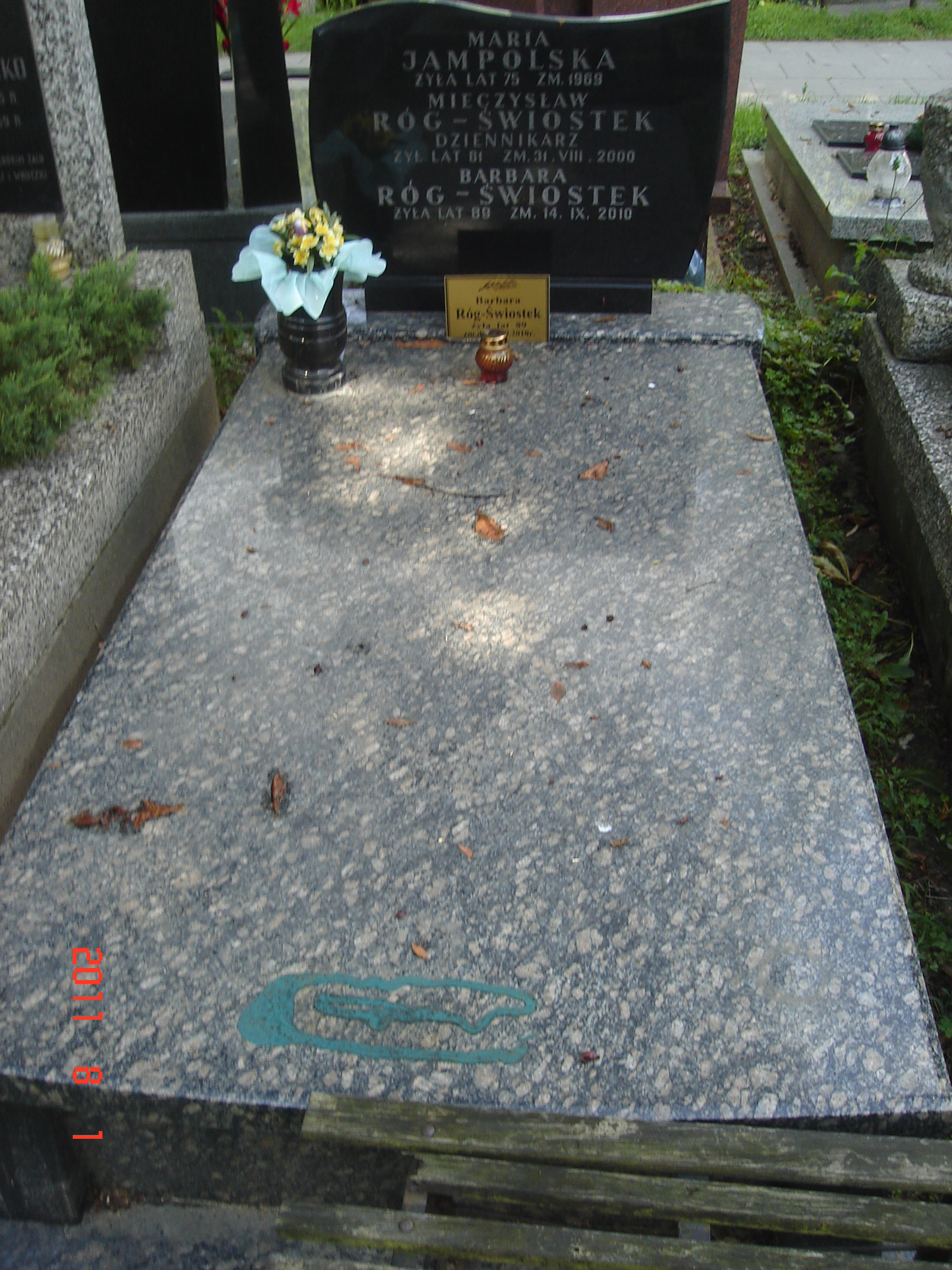 Mieczysław_Róg_Świostek tomb in military powązki